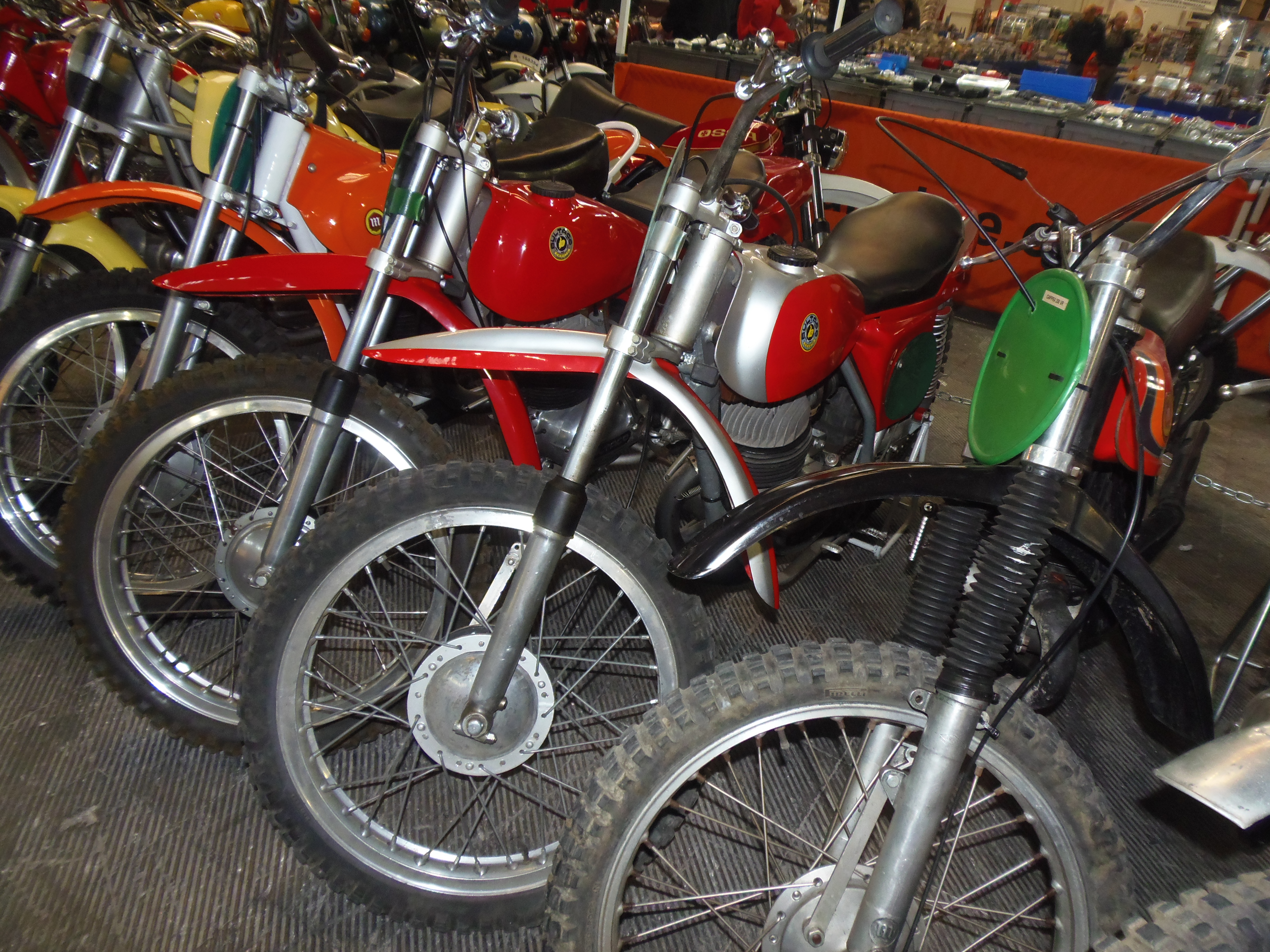 The second from right: Bultaco Pursang MK3 painted as an MK4. The third from right: Bultaco Pursang MK2.